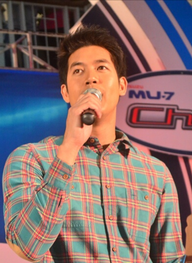 Sukollawat Kanaros